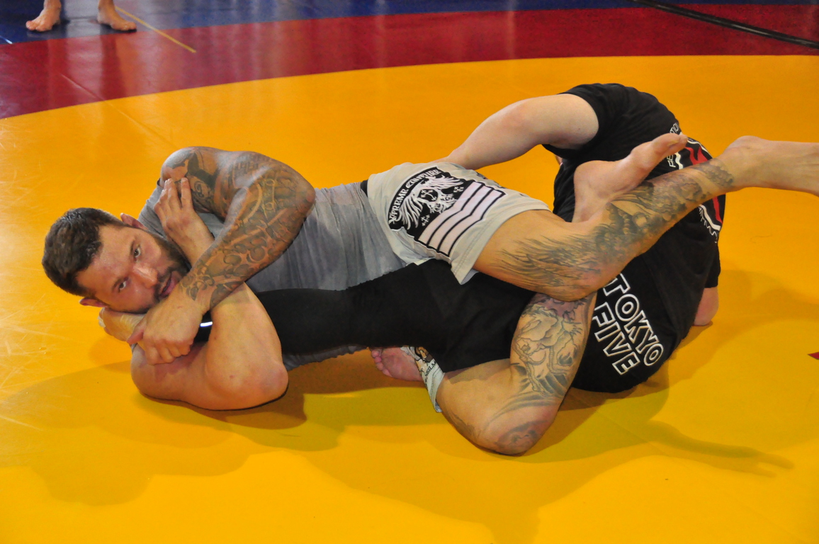 Neil Melanson demonstrating a kneebar leglock at a March 2012 seminar.